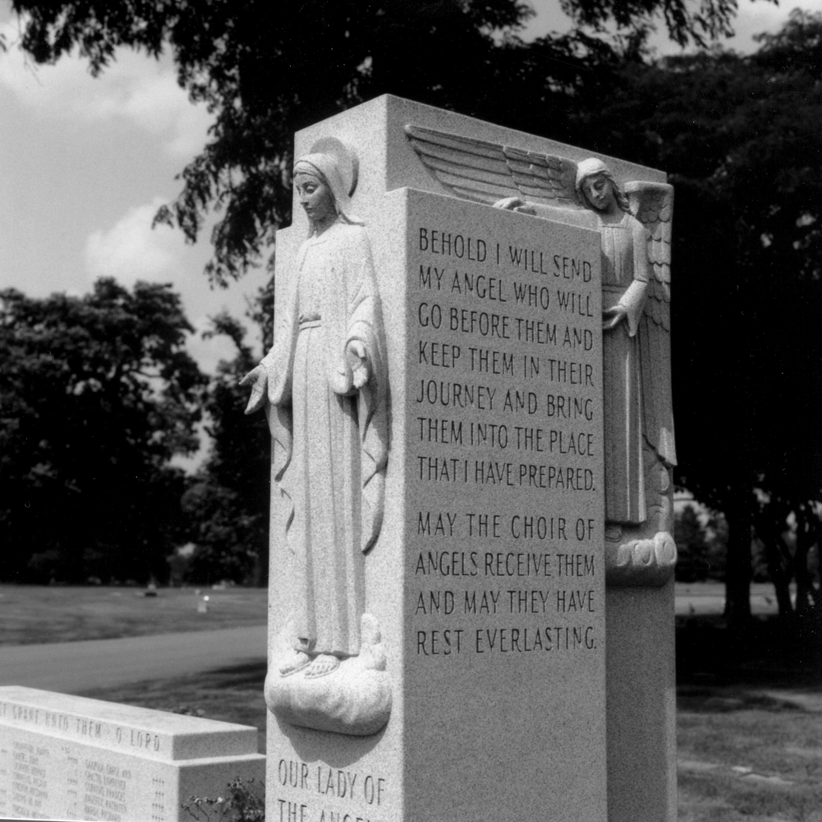 photo by Einar Einarsson Kvaran for Our Lady of the Angels School Fire, sculpture by Corrado Parducci